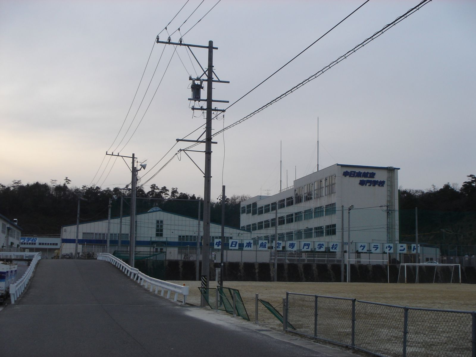 College_of_Nakanippon_Aviation(中日本航空専門学校),Seki,Gifu,Japan(岐阜県関市迫間)で撮影。